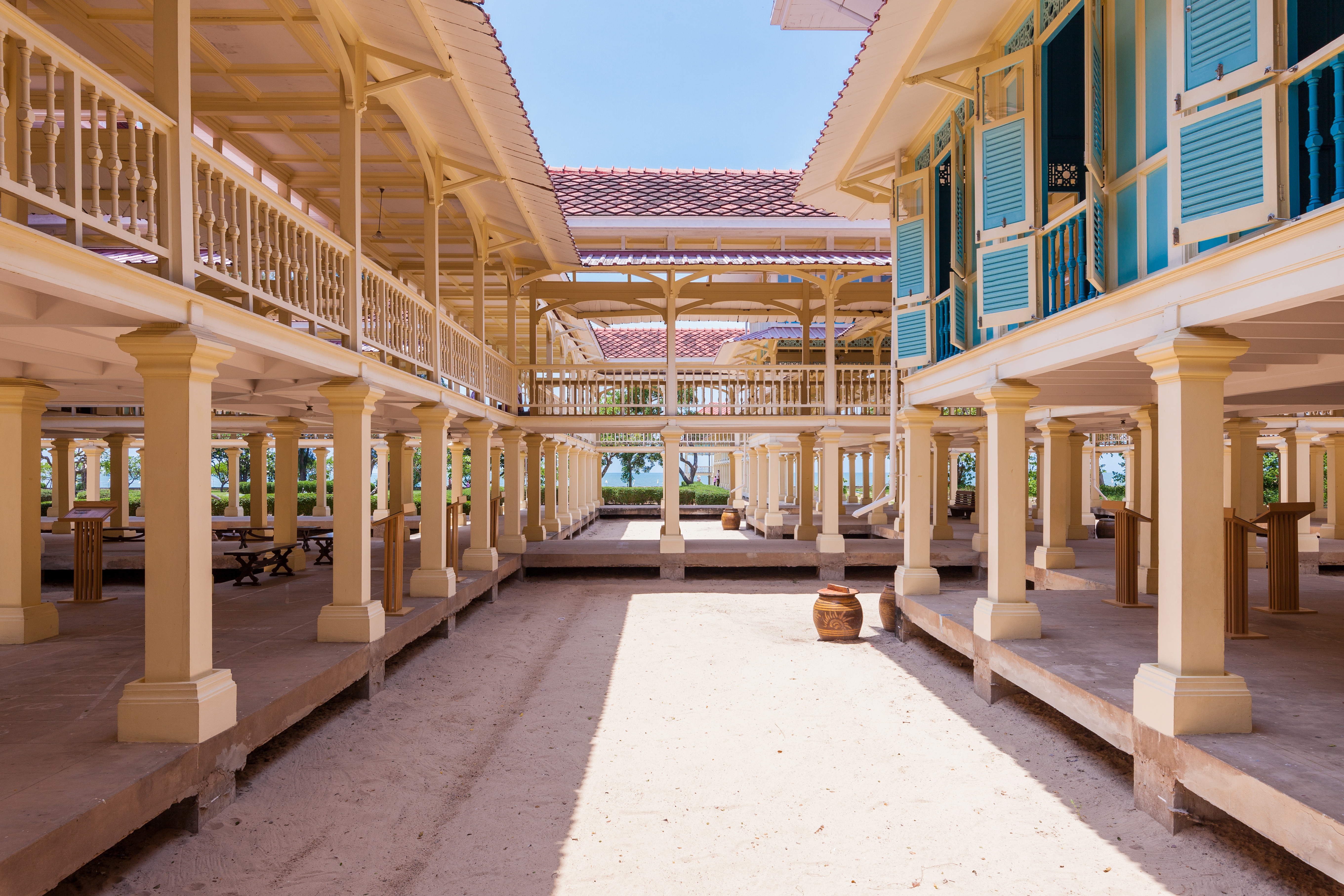 Mrigadayavan Palace (RTGS: phra ratchaniwet maruekkhathayawan, IPA: [pʰráʔ râːttɕaníwêːt márɯkkʰatʰaːjawān]; also phra ratchawang maruek thayawan) was the summer palace of King Vajiravudh (Rama VI) in Cha Am District, Phetchaburi Province, Thailand.